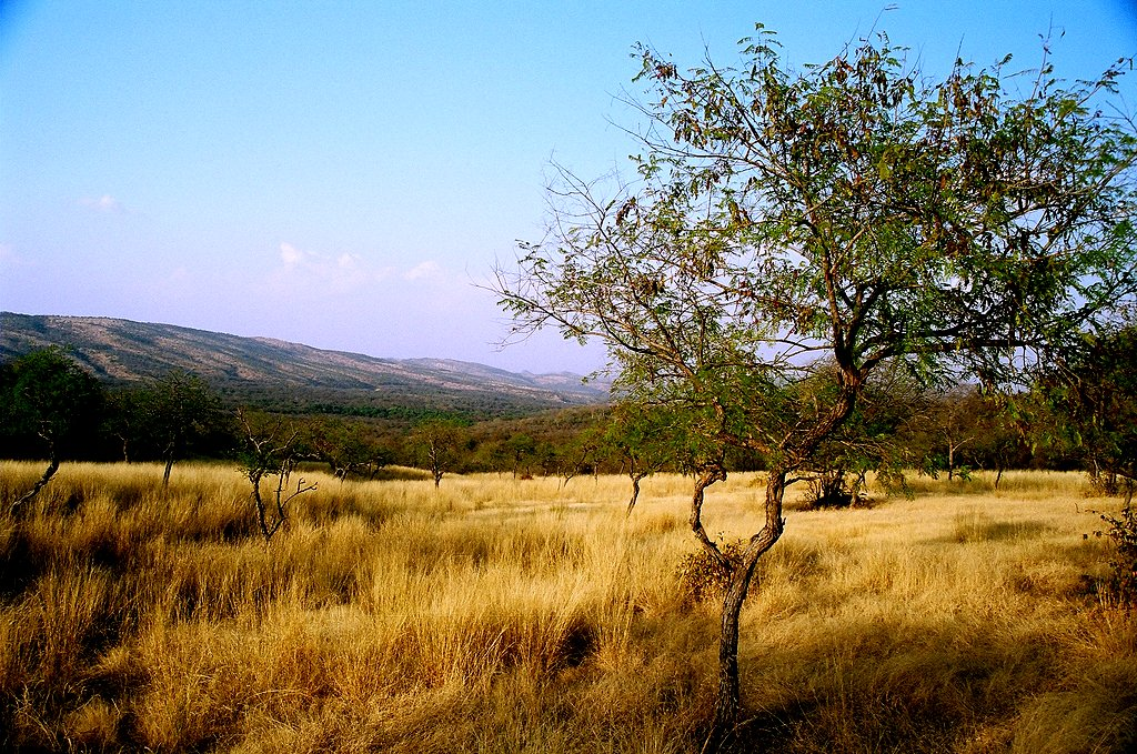 Aravalli Range inside Ranthambhore, Rajasthan.